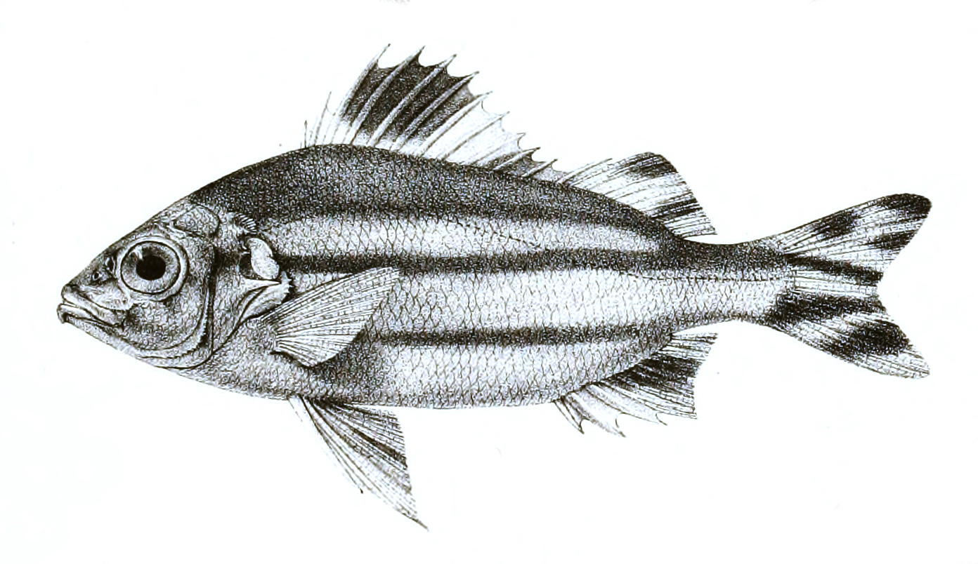 The species names / identity need verification. The original plates showed the fishes facing right and have have been flipped here. Therapon theraps